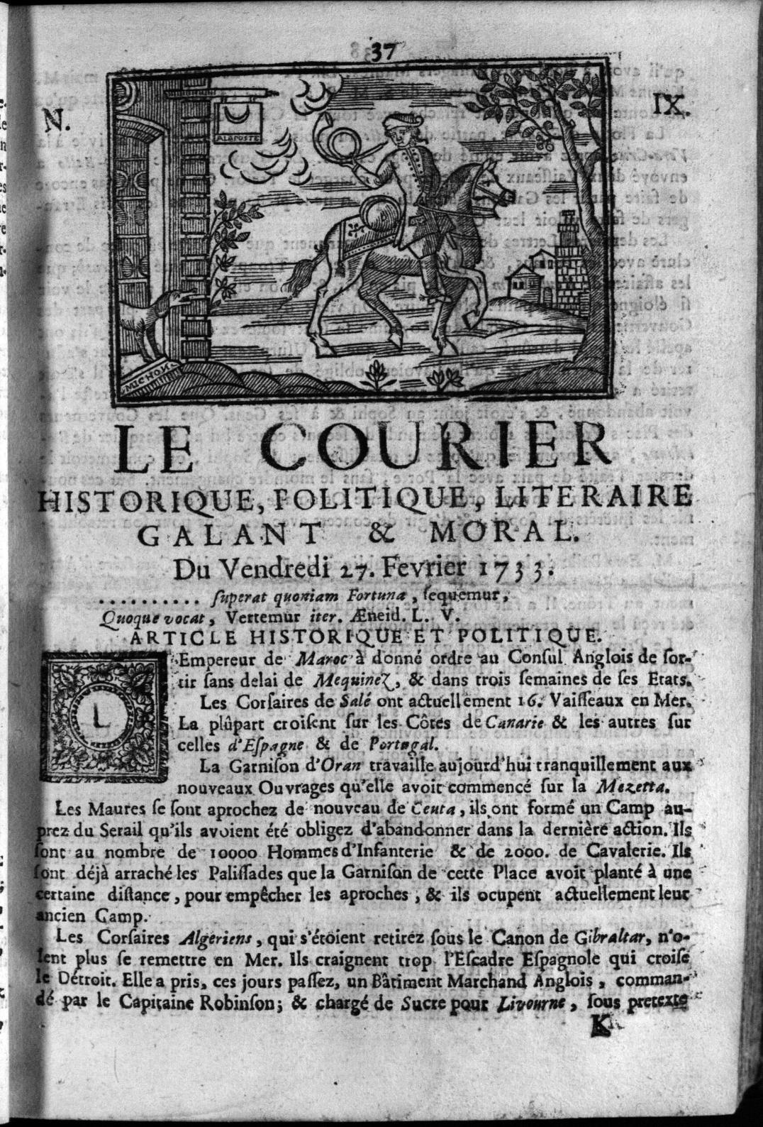 Courrier d’Avignon: ninth edition, first page